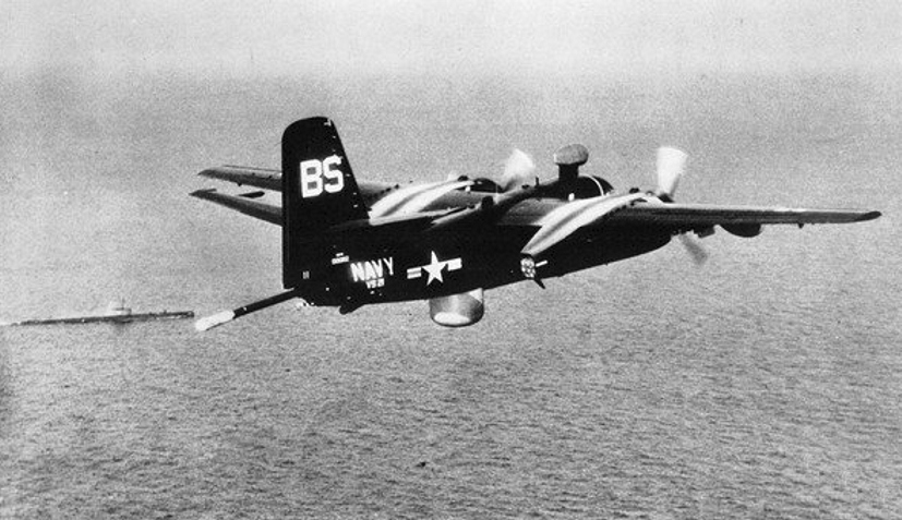 A U.S. Navy Grumman S2F-1 Tracker of Anti-submarine Squadron VS-21 "Lightning Bolts" in flight with radar and MAD-sensor deployed. VS-21 was assigned to the aircraft carrier USS Princeton (CVS-37) for a deployment to the Western Pacific and the Indian Ocean from 5 January to April 1956.